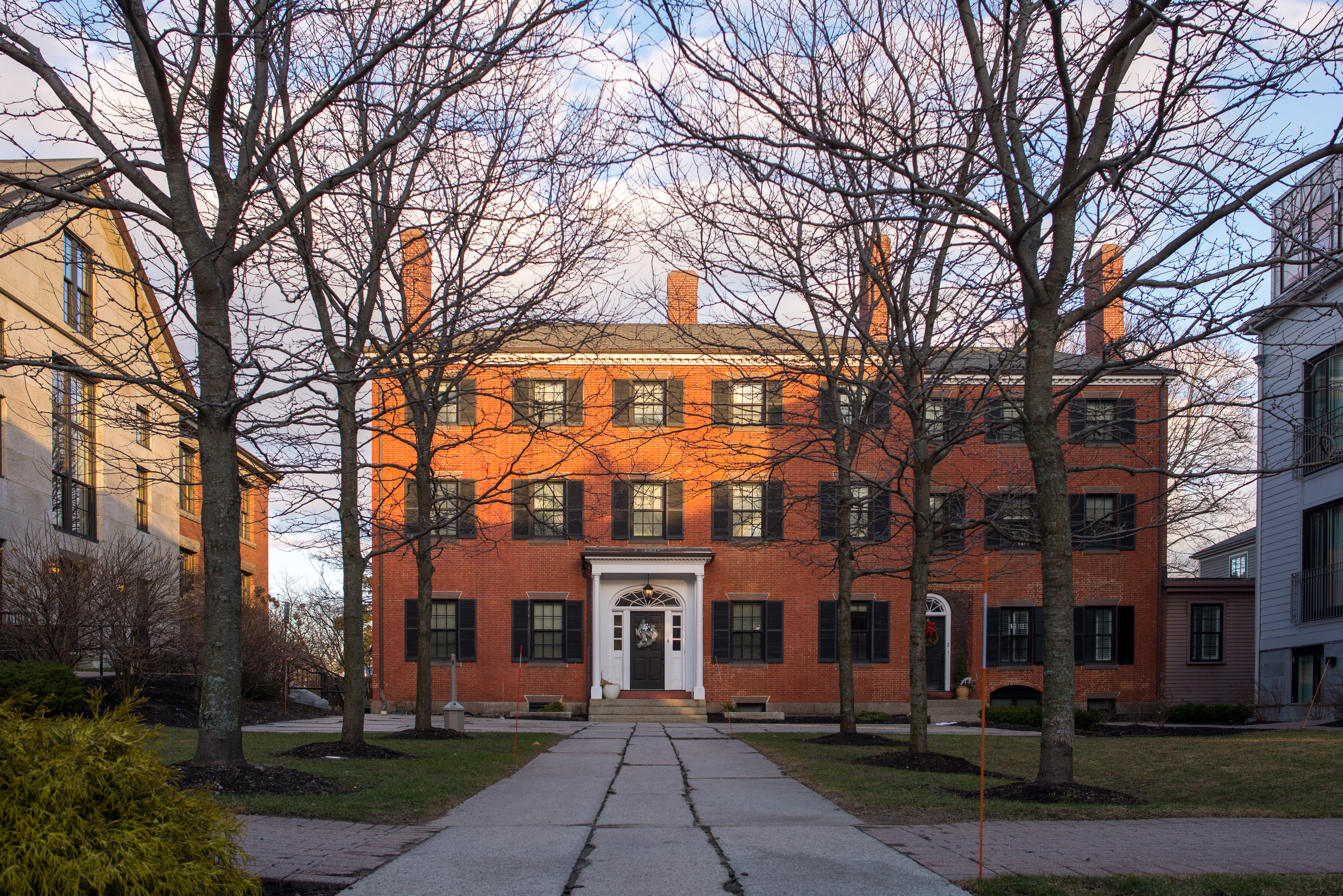 Former historic jail converted to residential and restaurant space